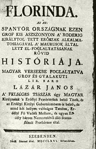 Florinda, 1766, by János Lázár